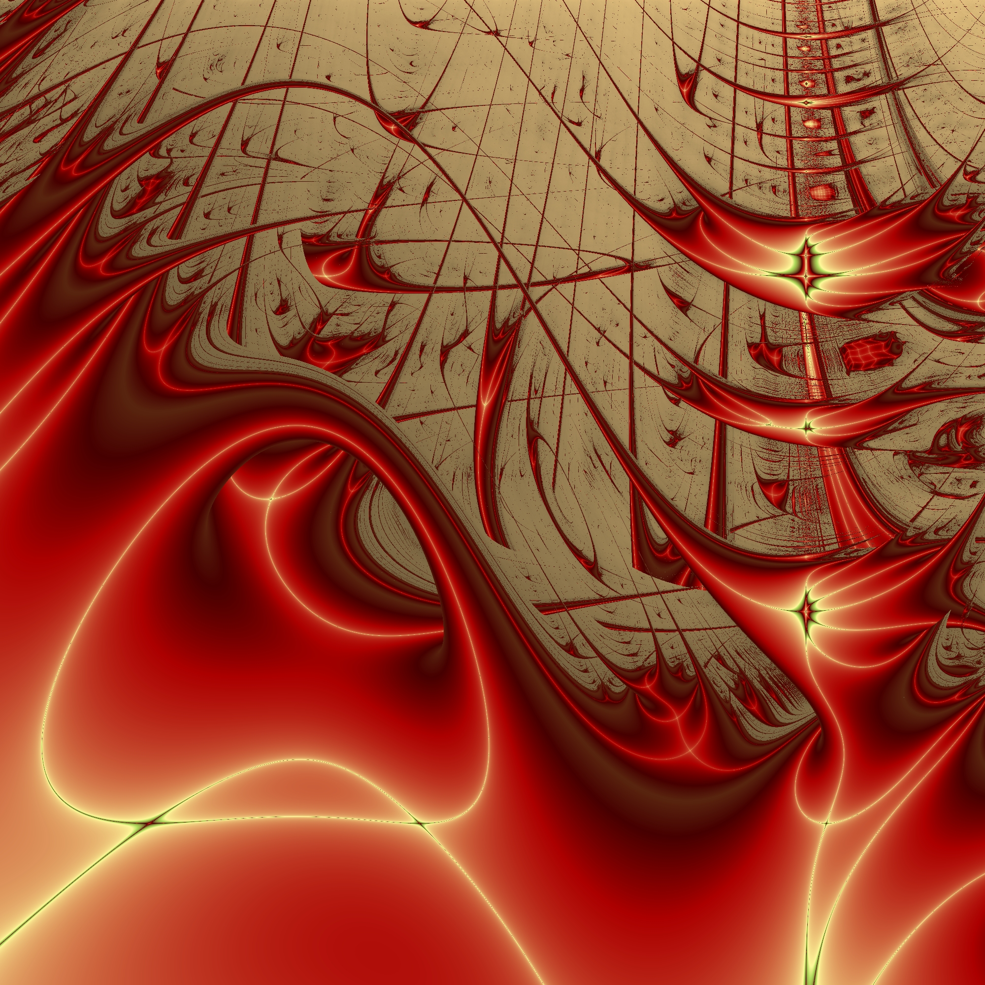 Lyapunov fractal for the sequence bbbbbbaaaaaa, for the growth parameter region ( a , b ) ∈ [ 3.4 , 4 ] × [ 2.5 , 3.4 ] {\displaystyle (a,b)\in [3.4,4]\times [2.5,3.4]} , known as Zircon Zity. Generated with MatheGrafix 9.40.